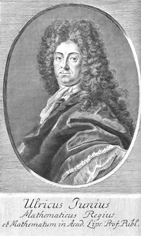 Ulrich Junius (1670–1726) german Astronomer, Geographer and Mathematician